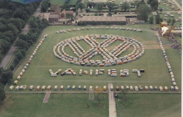 Vanfest Fantastic VW emblem made from just VW Camper vans. Can't remember the date, must have been in the late 90's